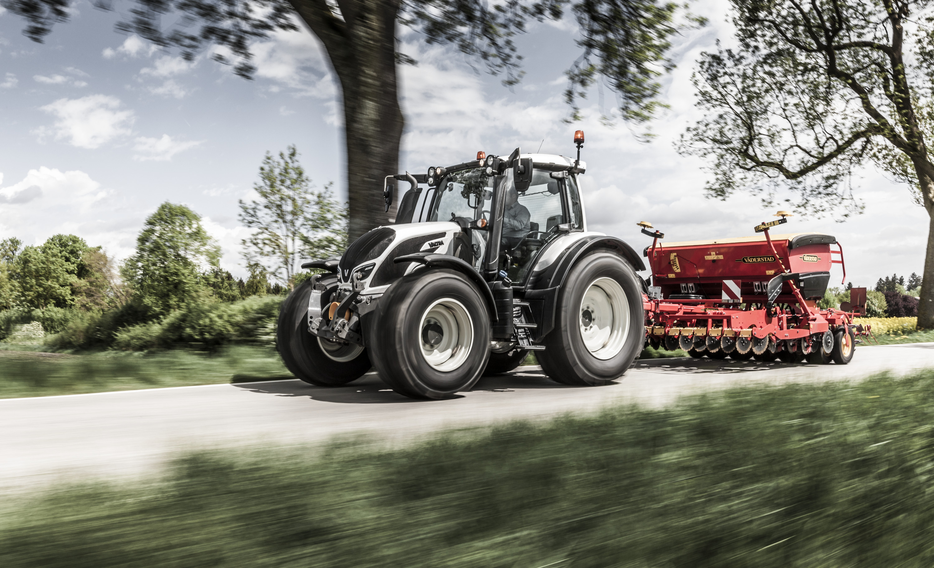 Valtra 4th generation N Series was introduced in October 2015. It was the most powerful 4-cylinder tractor in the world during launch.